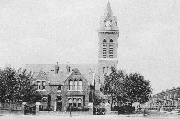 The church of St Michael and All Angels, at Poplar, in the olden days.